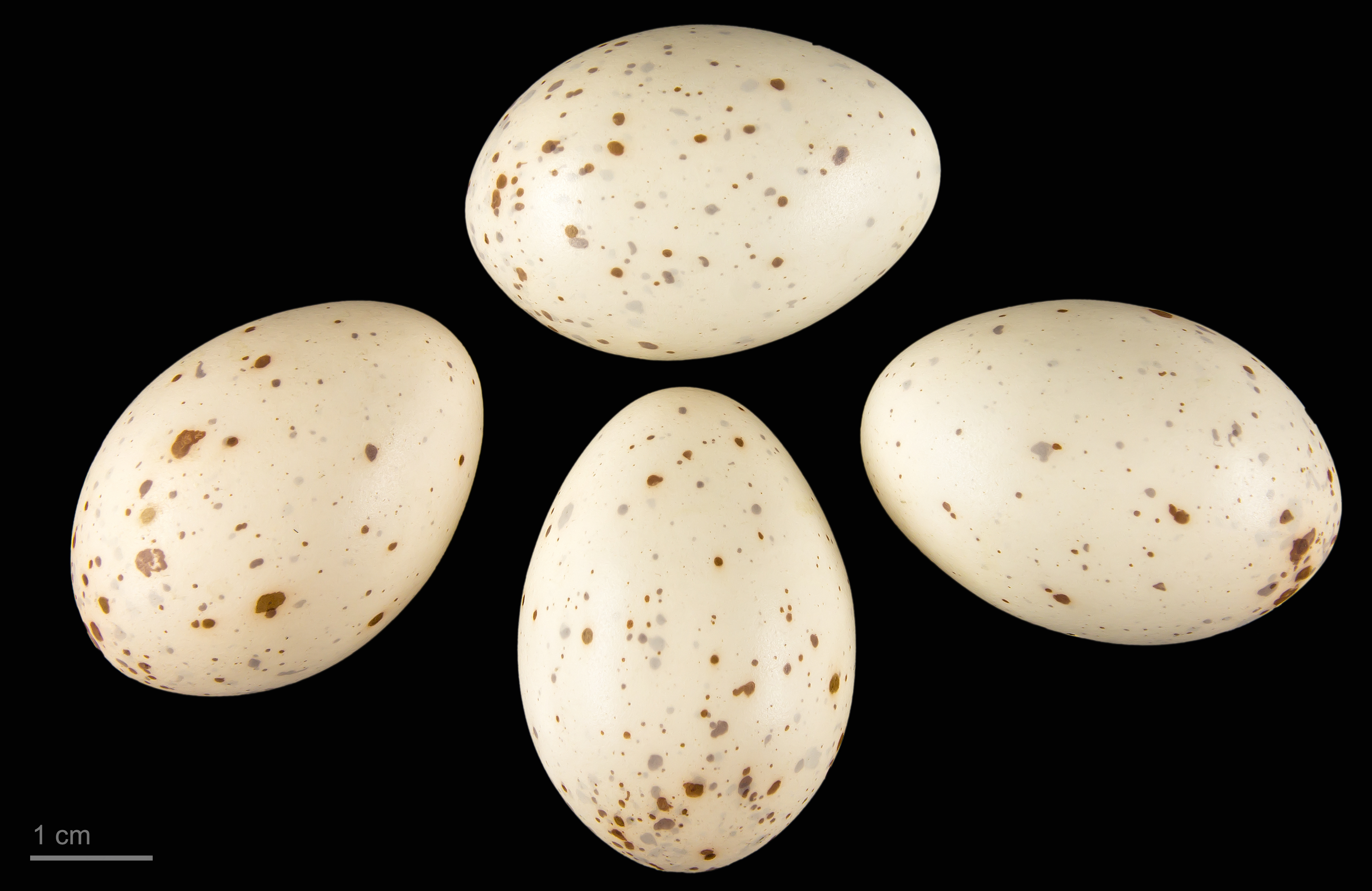 Eggs of water rail Four specimens of the same spawn ; collection of Jacques Perrin de Brichambaut.